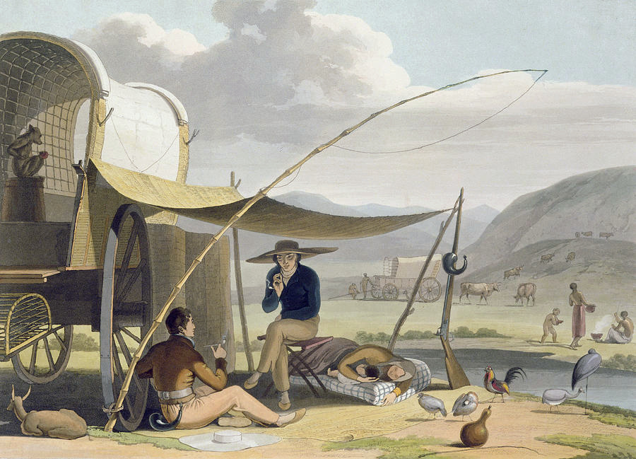 "The Trekbur", Aquatint